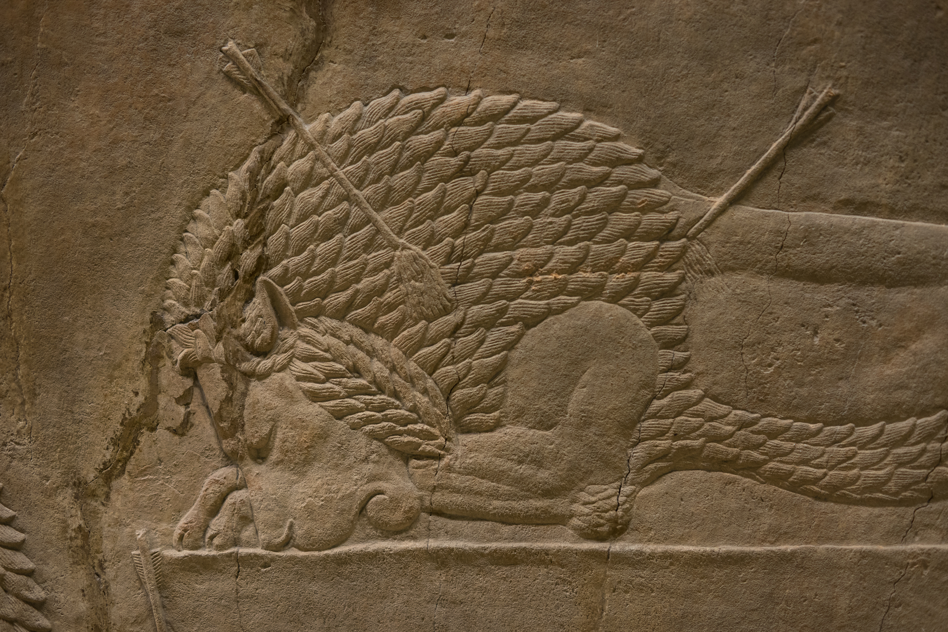 British Museum - Room 10